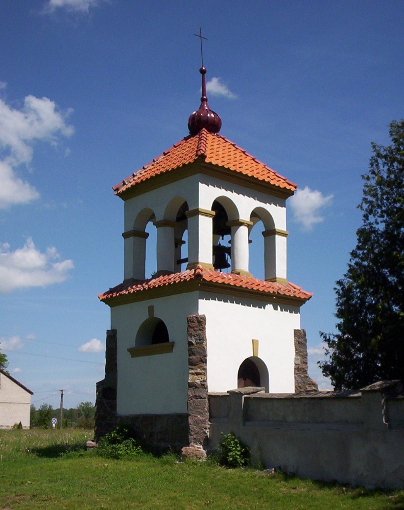 Belfry near The Trinity's church in Bolimów, Poland.